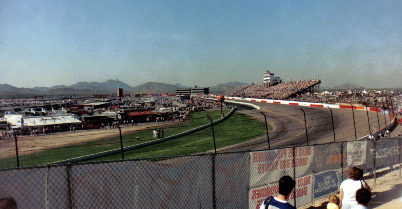 The view from outside the 4th turn at Phoenix in 1989.